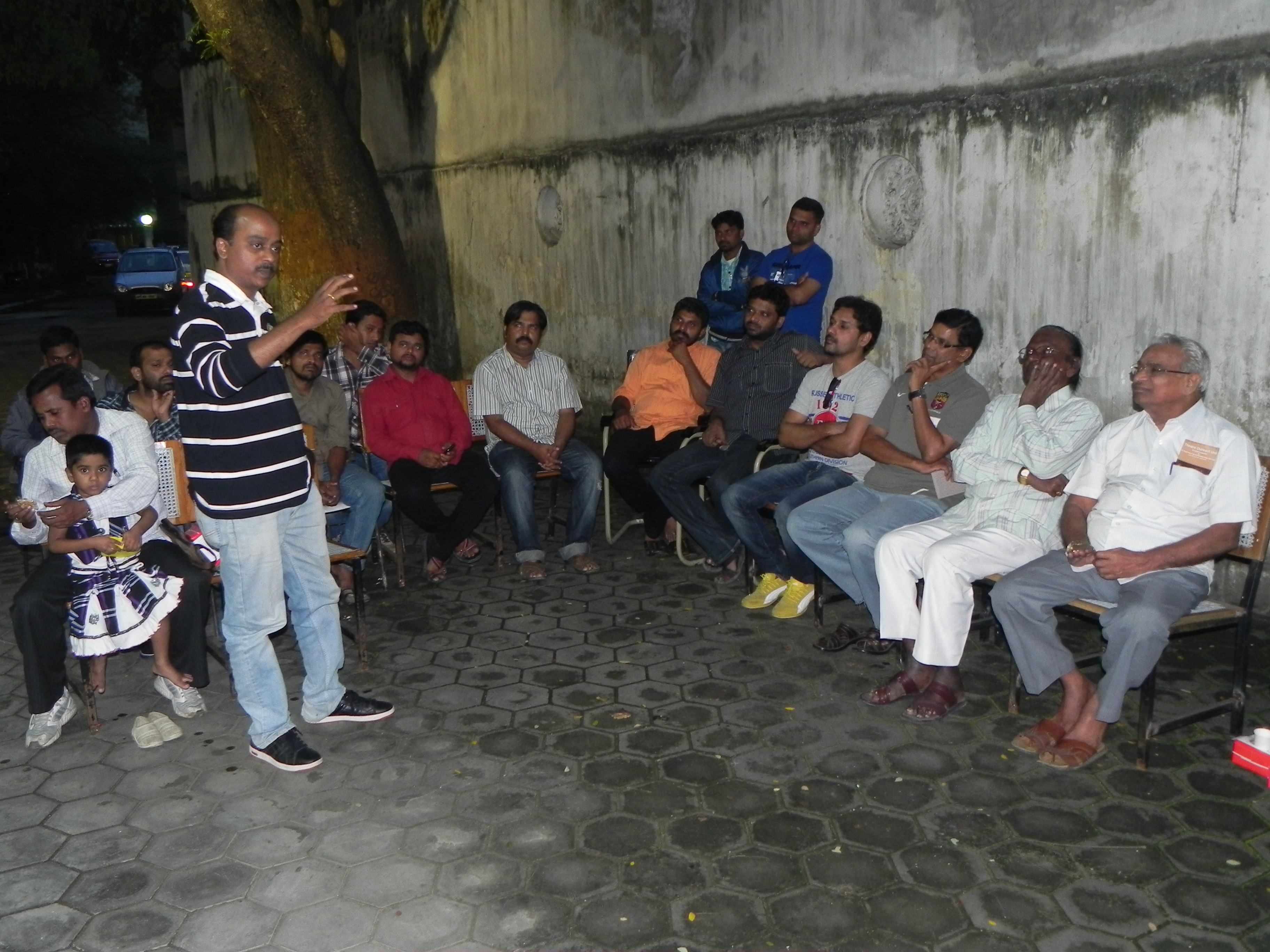 శ్రీ పెద్ది రామారావు